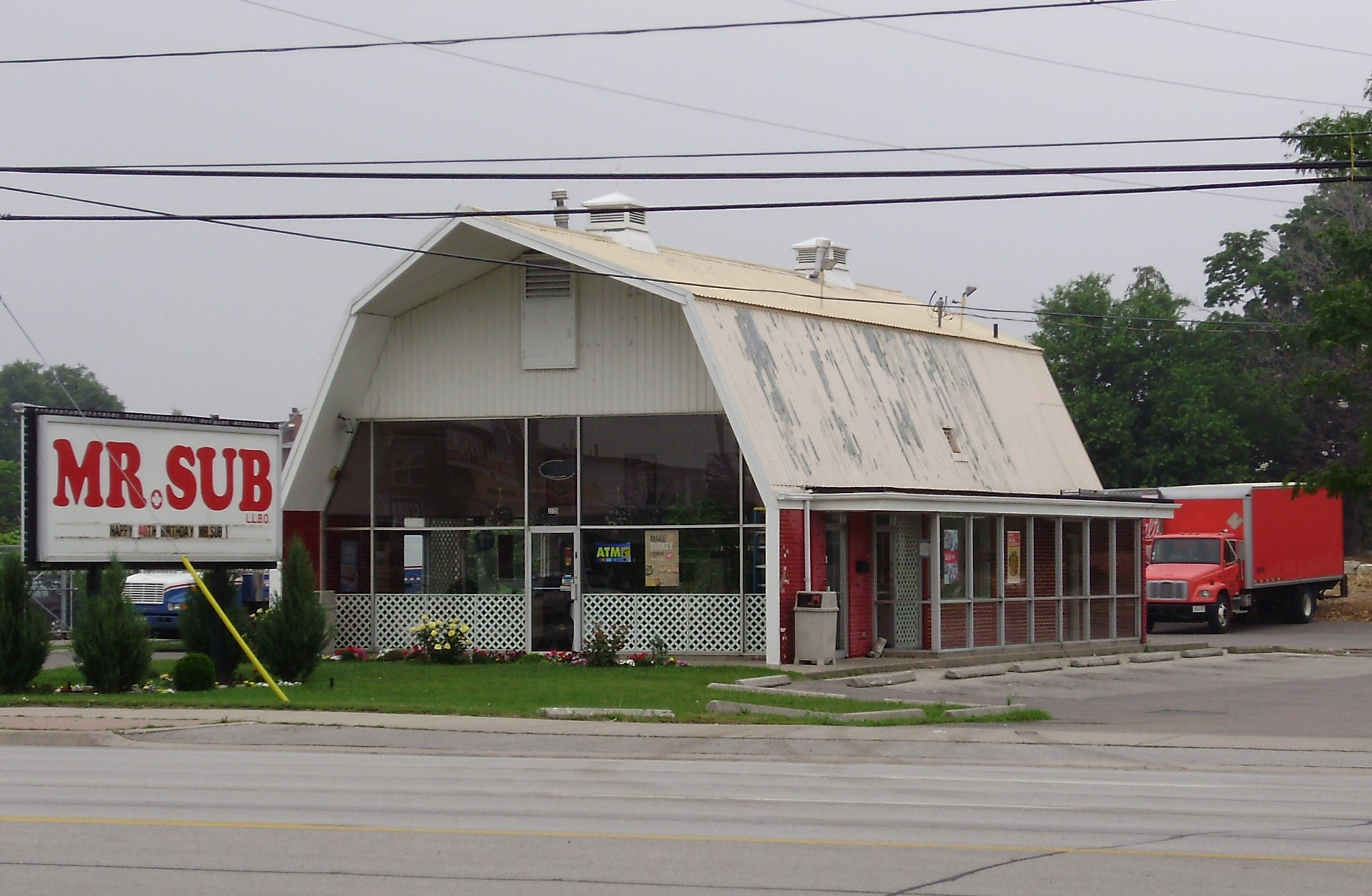 A Mr. Sub restaurant housed in a converted barn, located on the north side of Dundas Street East in Mississauga,Ontario, Canada.